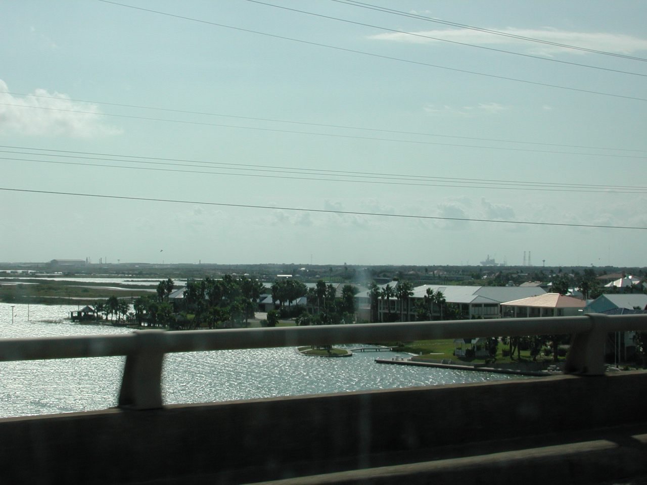 View of Aransas Pass and Inglside from the bridge across Redfish Bay